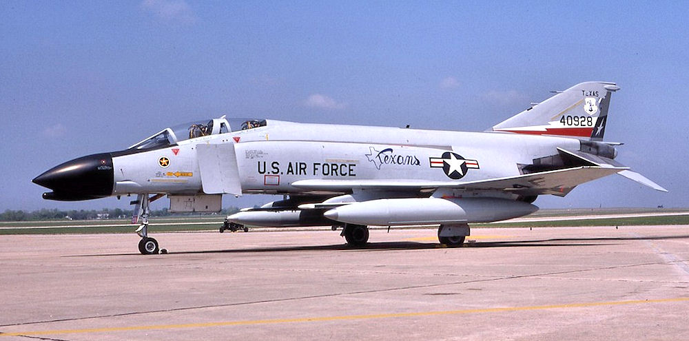 111th Fighter Interceptor Squadron - McDonnell F-4C-25-MC Phantom 64-0928. Retired to AMARC as FP0077 May 20, 1987